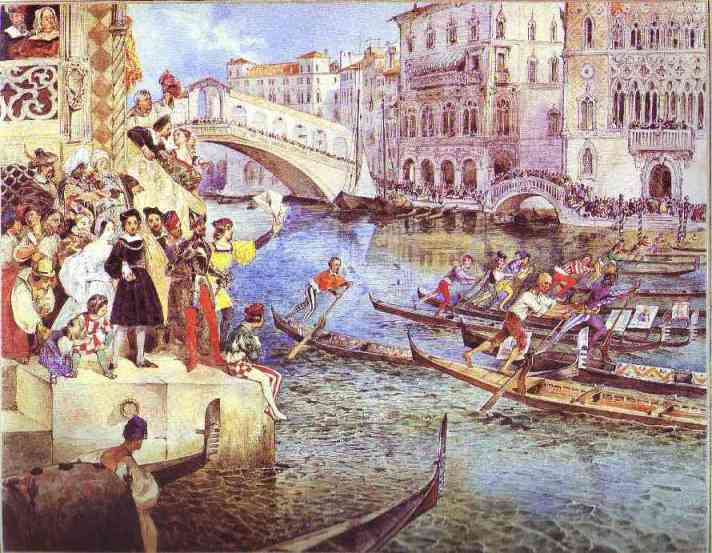 Gondola Races on the Grand Canal in Venice. 1830s. Watercolor on paper. The Hermitage, St. Petersburg, Russia.